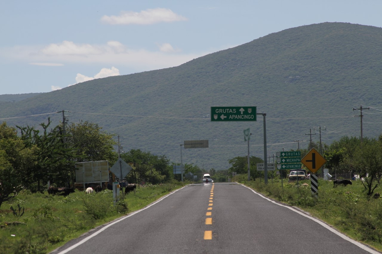 Mexican Federal Highway 95 at Grutas, Morelos